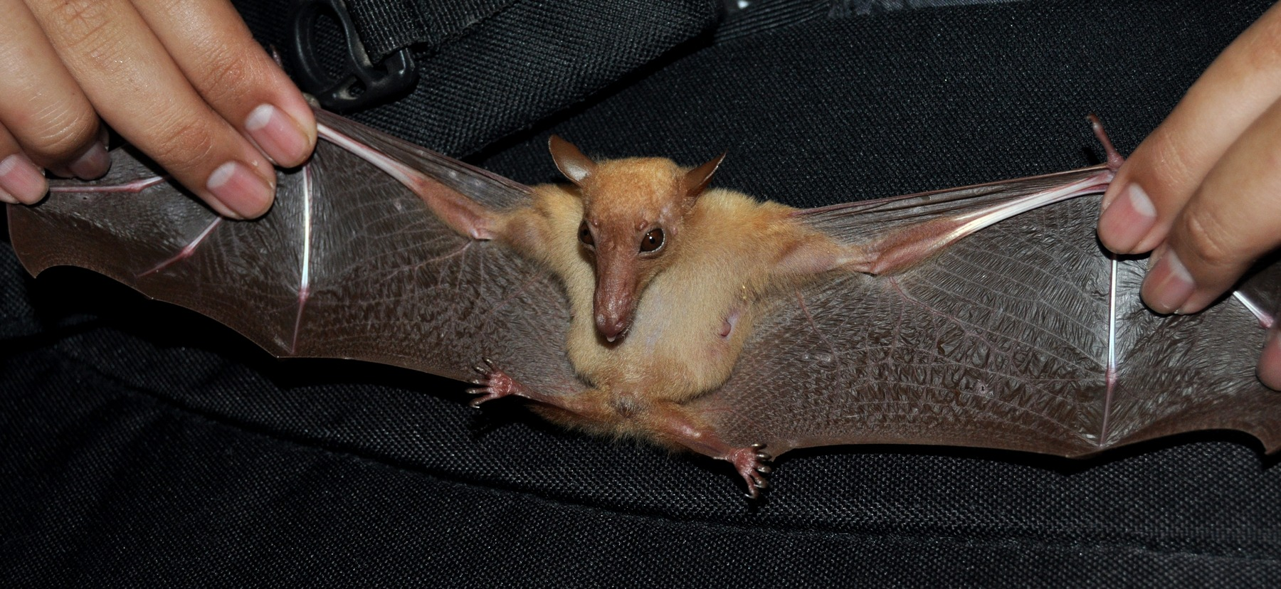 Greater long-tongued fruit bat (Macroglossus sobrinus), female, fore-arm 48 mm, from Darmaga, Bogor, West Java. Front view.